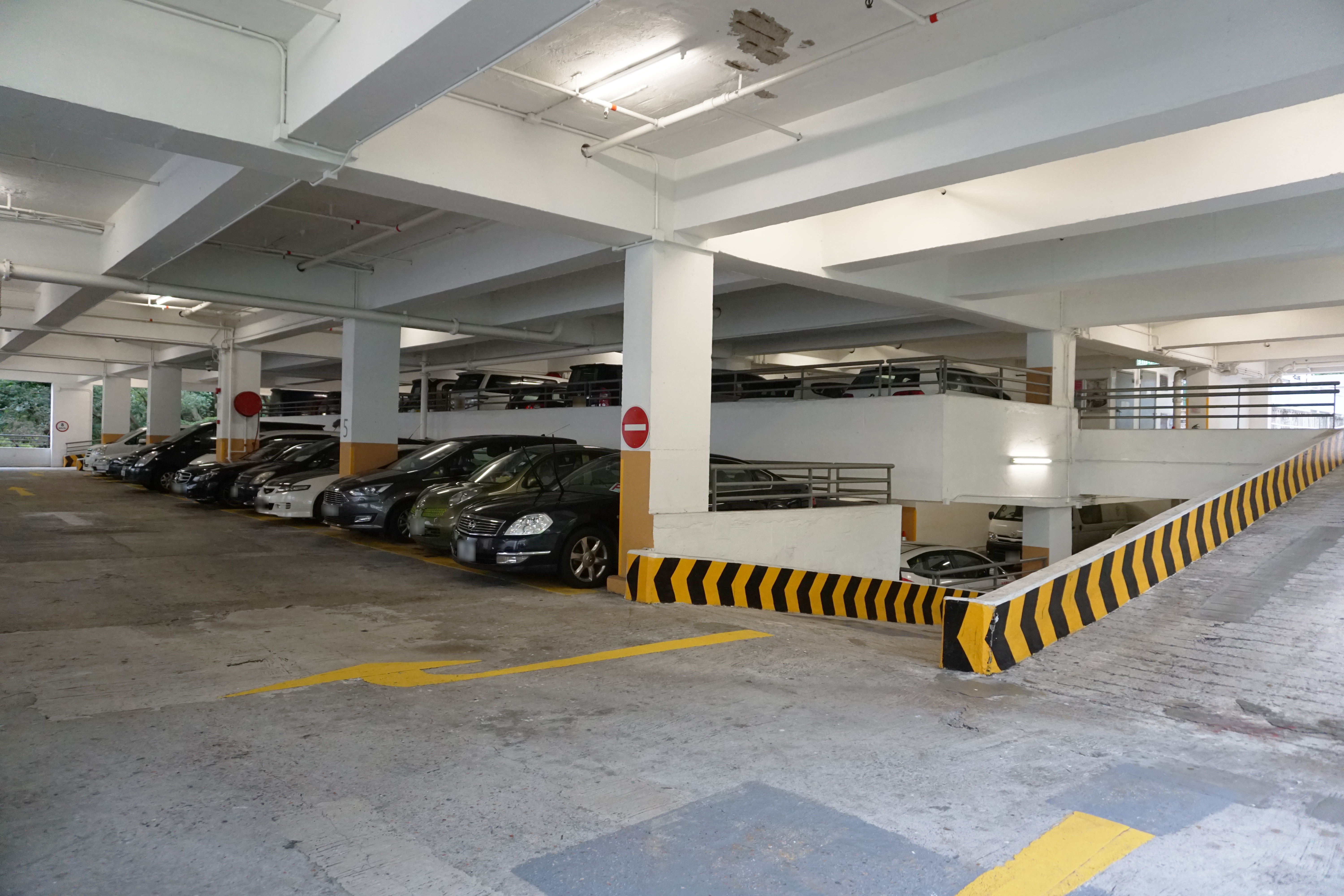 Tai Wo Hau Estate in Tai Wo Hau, Hong Kong.